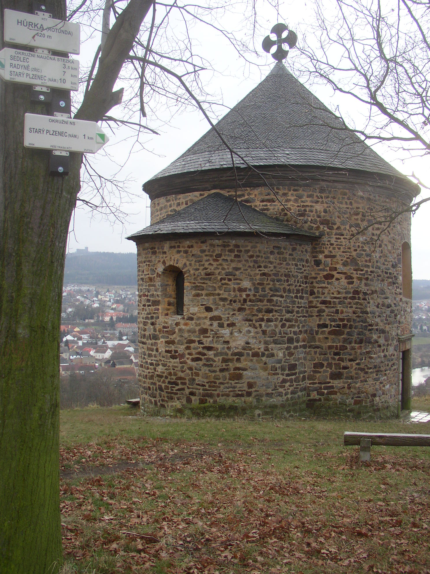 Rotunda of St Peter, a church from late 10th century which was a part of a medieval fortified settlement on hill of Hůrka above Starý Plzenec, Plzeň-City District, Czech Republic. A view from NNE, a part of town of Starý Plzenec can be seen in the valley, Radyně Castle (about 2.6 km away) on the horizon.